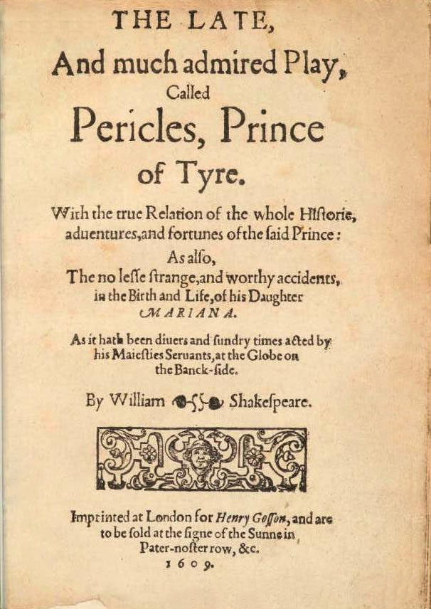 Title page of first edition of Wilkins and Shakespeare's Pericles, Prince of Tyre (1609)